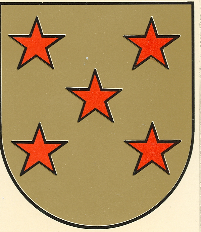 Coat of Arms of the Portuguese family Coutinho